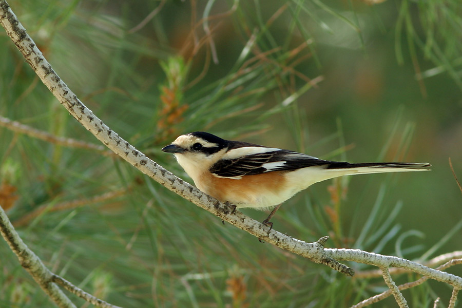 Lanius nubius taken in Turkey.